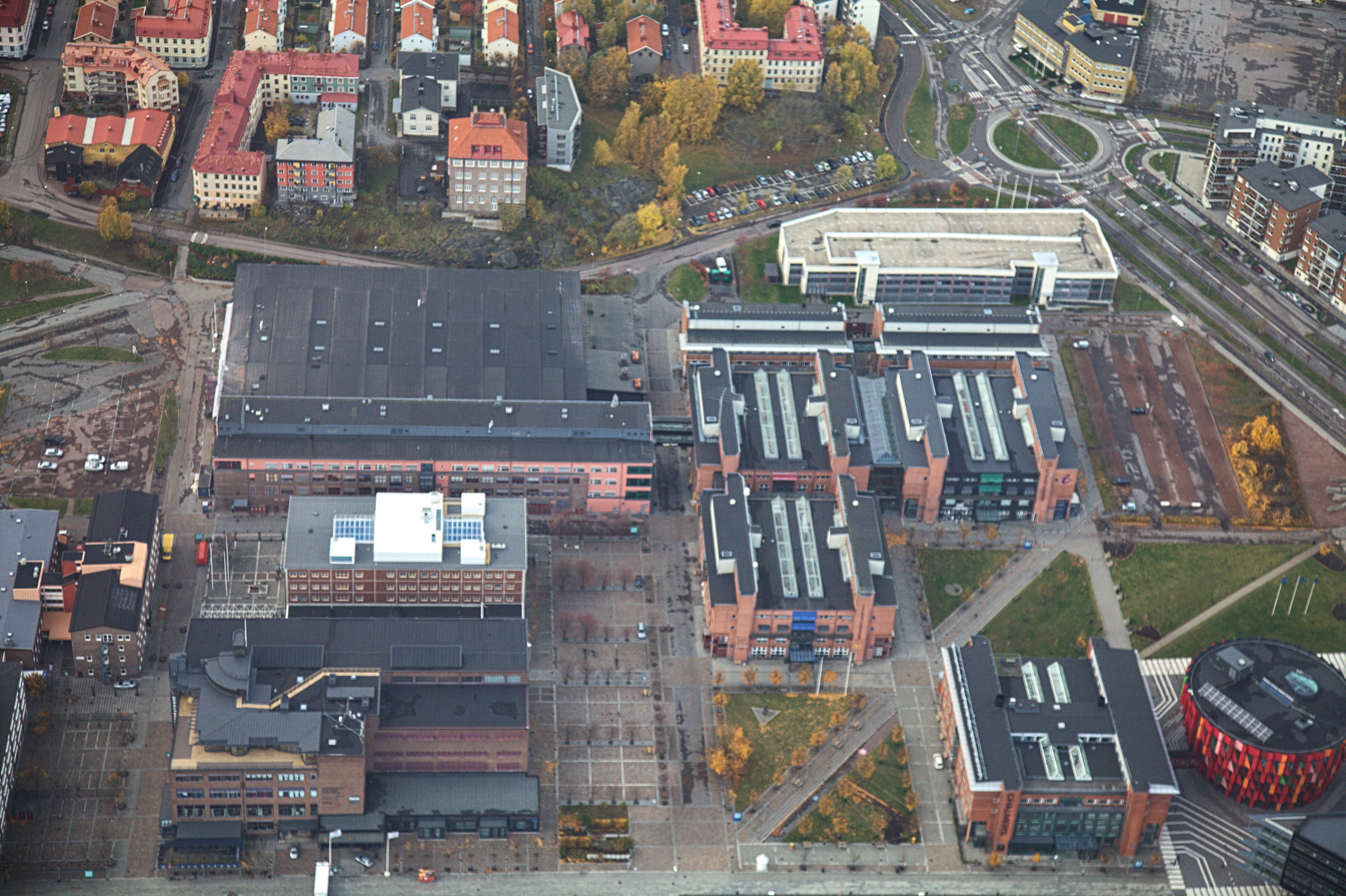 Photo taken on a helicopter over Gothenburg